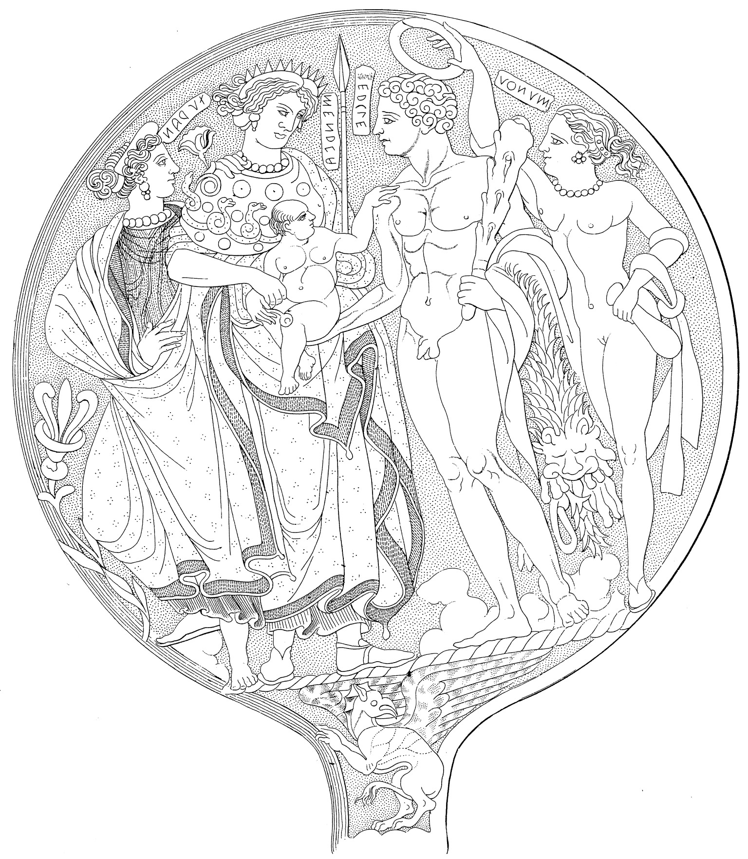 Etruscan Bronze mirror. Berlin, Staatliche Museen.Menrva and the crowned Hercle with Baby. On the left Turan and in the right Munthu